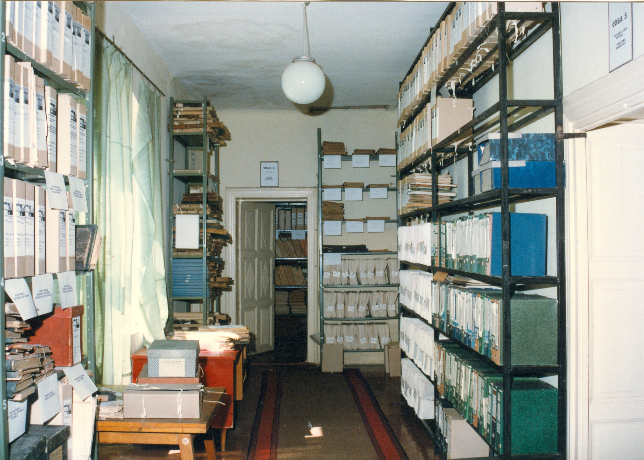 Depot of the Historical Archive of Negotin Srpski (latinica): Istorijski arhiv Negotina, Depo